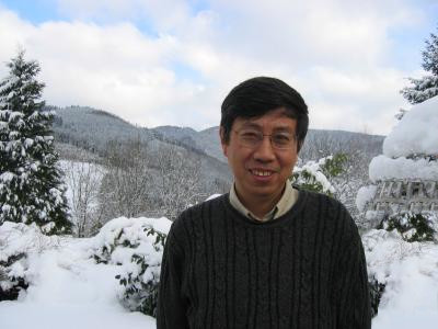 Gang Tian, Chinese-American mathematician, at Oberwolfach.